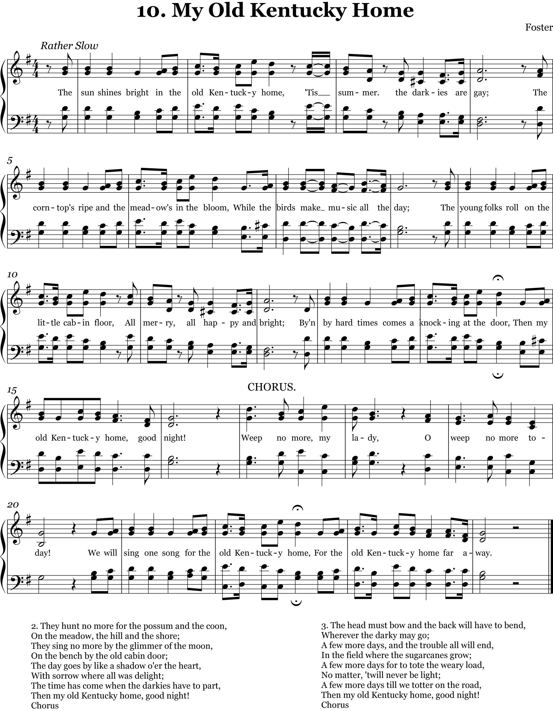 "My Old Kentucky Home"